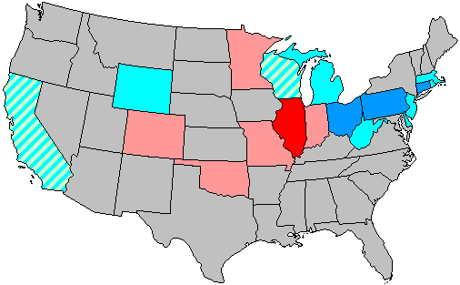 Summary of party change of U.S. house seats in the 1940 House election. Stripes indicate a tie between the gains of two or more parties. Legend: 6+ Democratic seat pickup 3-5 Democratic seat pickup 1-2 Democratic seat pickup 1-2 Republican seat pickup 3-5 Republican seat pickup 6+ Republican seat pickup 1-2 Progressive seat pickup 3-5 Progressive seat pickup 1-2 Farmer-Labor seat pickup 3-5 Farmer-Labor seat pickup Note: years ending in 2 may have inconsistent results due to redistricting.